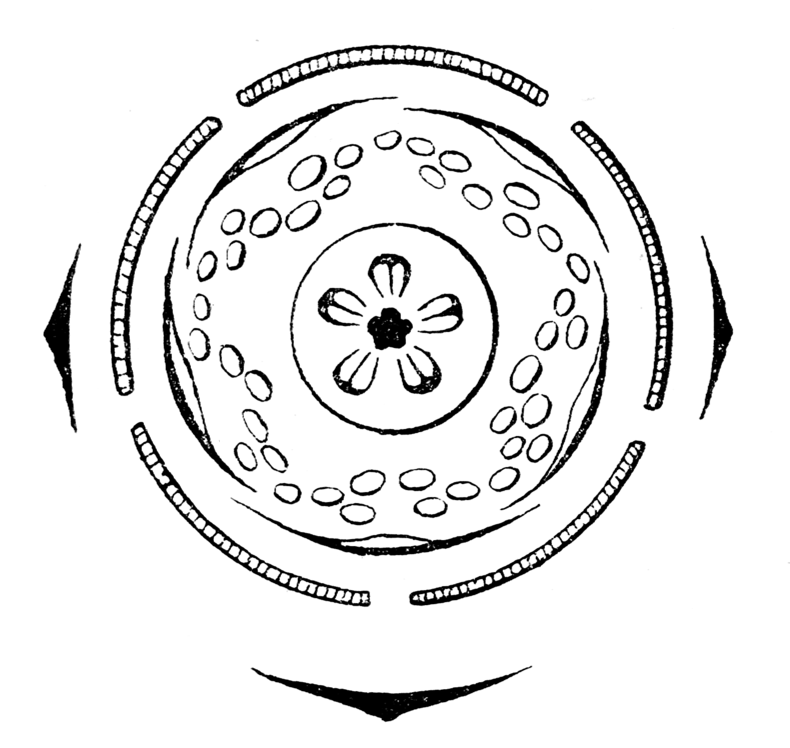 Diagram of a flower of Tilia